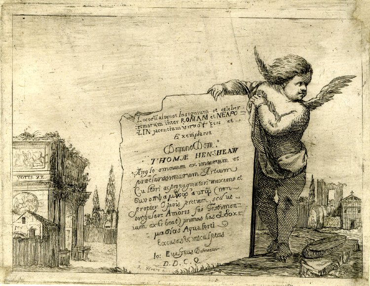 Views in Italy, dedication to Thomas Henshaw.